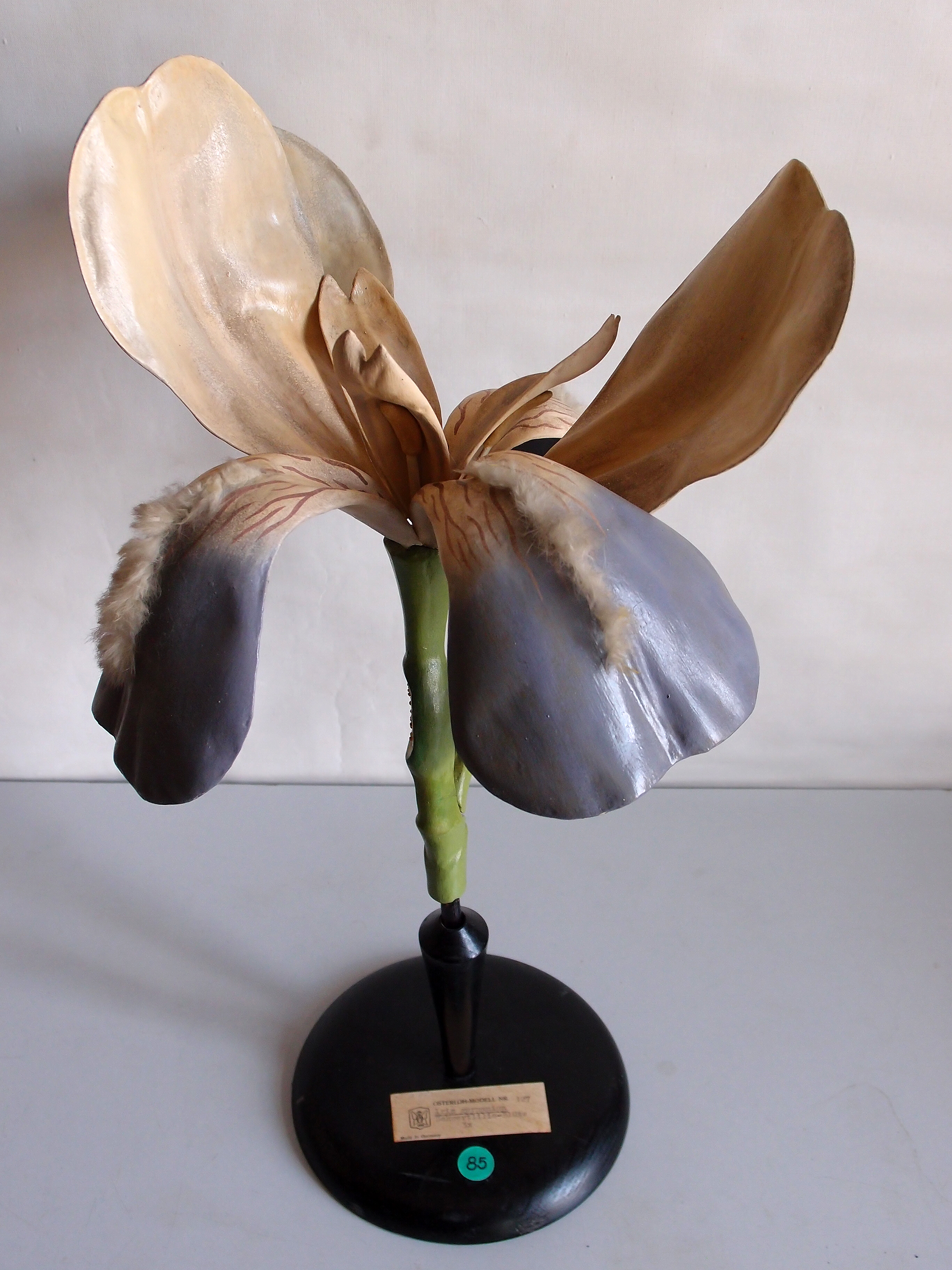 Model from the collection of the Botanical Museum in Greifswald, Germany. . see also for more information on the models